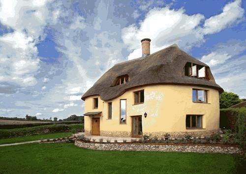 21st century cob building in East Devon, England, by Kevin McCabe